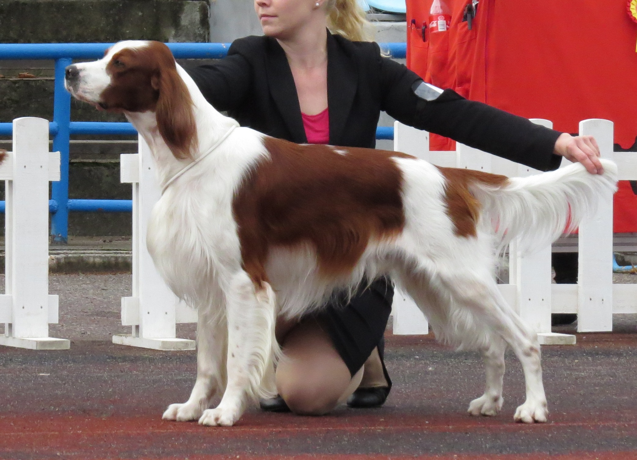 Irish Red And White Setter in Tallinn, duo CACIB, 17-18 Aug 2013